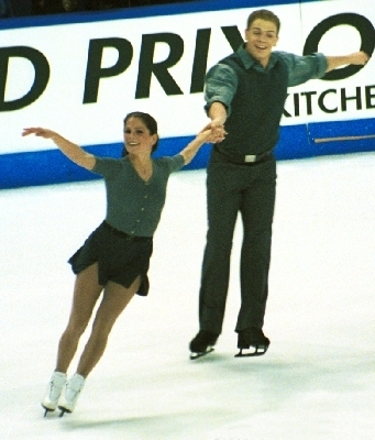 Jamie Salé and David Pelletier compete "Love Story" at the 2002 Grand Prix Final in Kitchener, Ontario. Author: User:Vesperholly